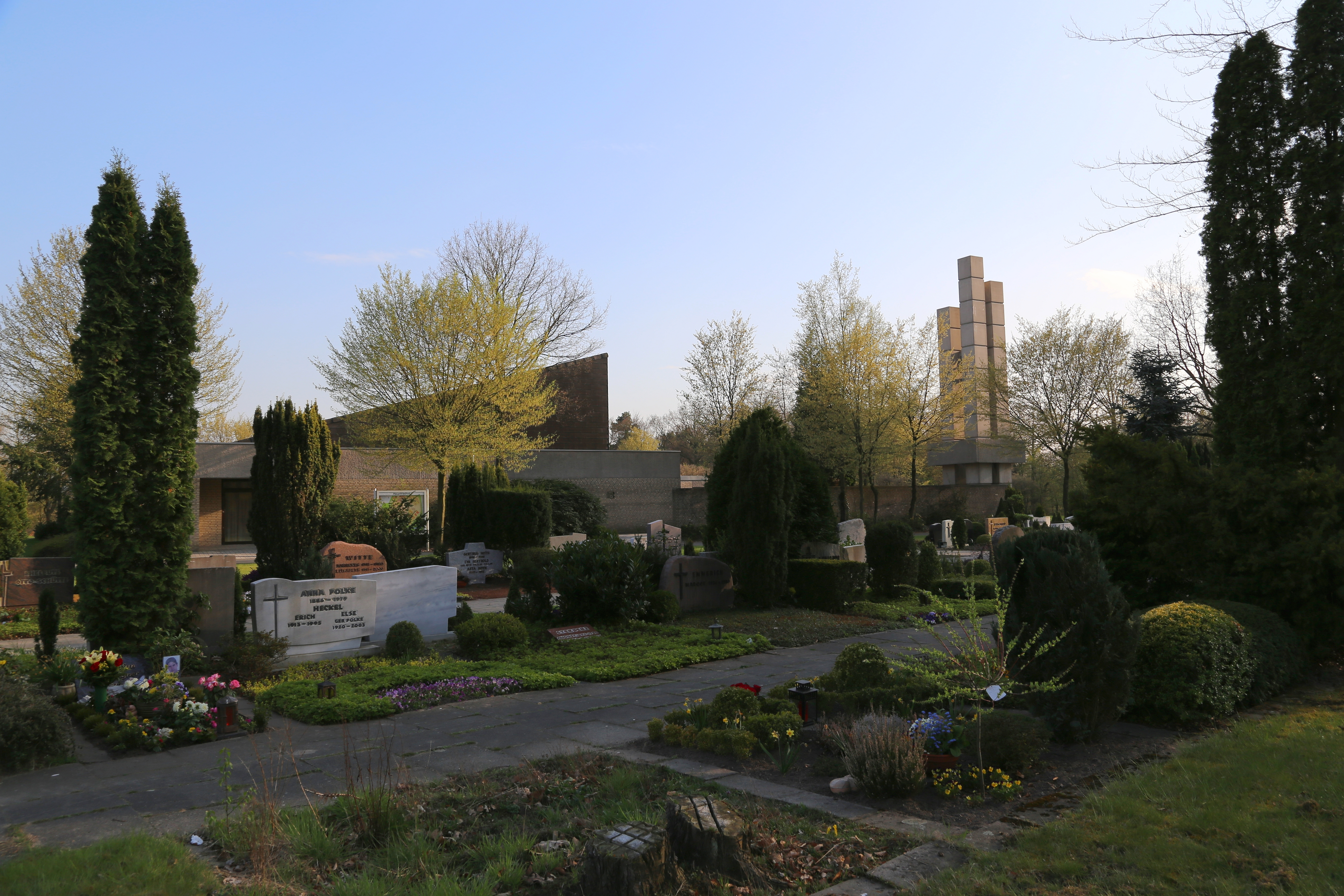 Ibbenbüren Main Cemetery (Hauptfriedhof Ibbenbüren) in Ibbenbüren, Kreis Steinfurt, North Rhine-Westphalia, Germany. The building in the background is the Cemetery Hall with bell tower (right).